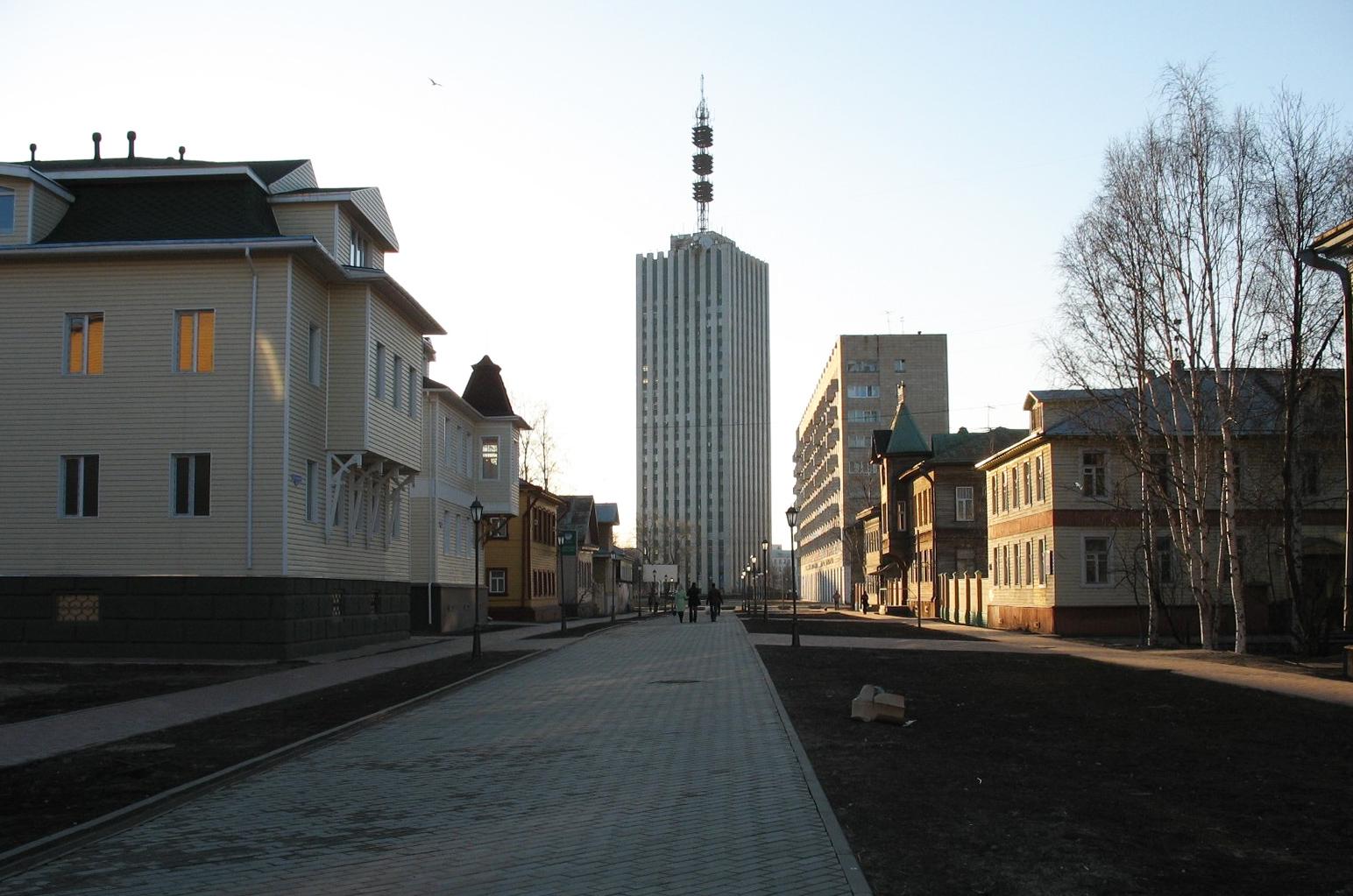 High-rise building in Arkhangelsk, Russia. View from Chumbarova-Luchinskogo prospect